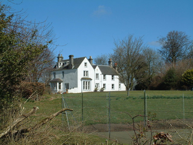 Lingo House An isolated country mansion house in woodland